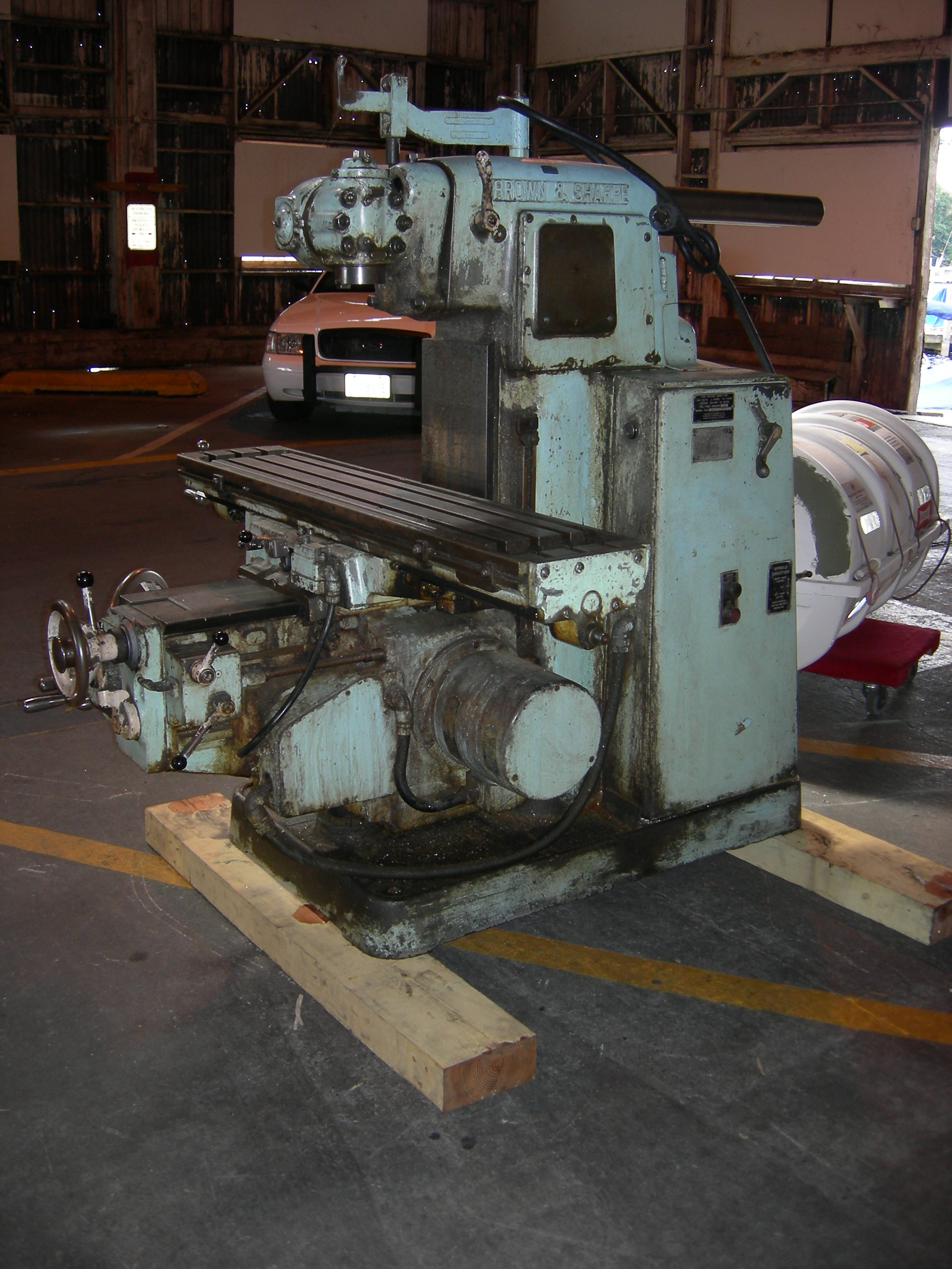 Machine at University of Washington Surplus, University of Washington, Seattle, Washington. According to WikipediaMaster this is a three axis (XYZ) milling or grinding machine.